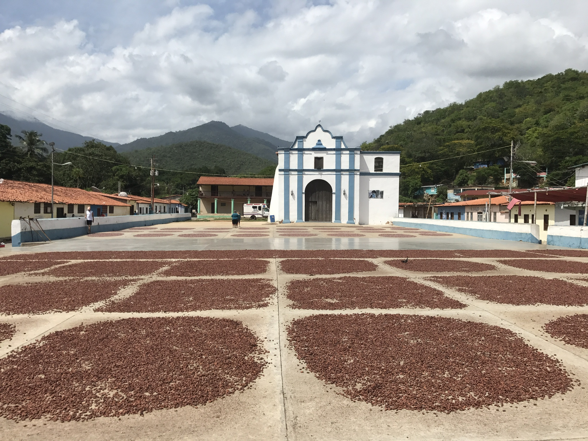 This how Cacao agricultures toast Cacao beans in the Village of Chuao, considered by many the source of the best chocolate in the world, Aragua State, Venezuela.